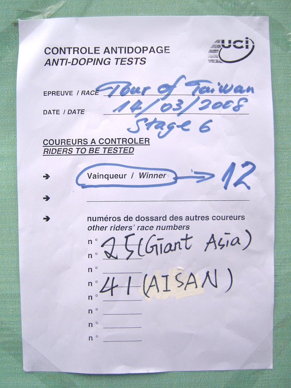 2008 Tour de Taiwan Taipei County Stage: A list for anti-doping test.